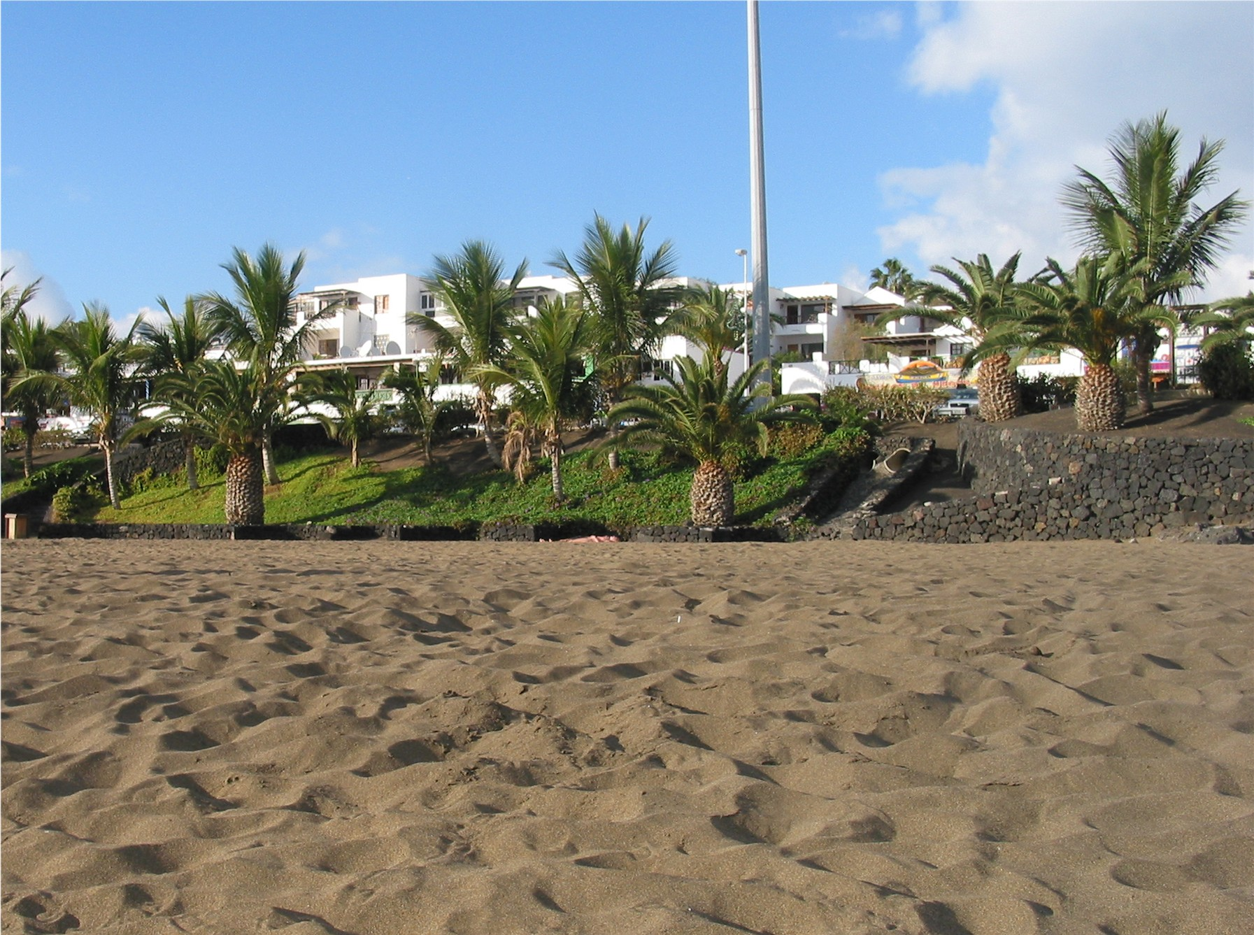 A beach in Puerto del Carmen, Lanzarote, Canary Islands (Spain). Photo taken December 2004.